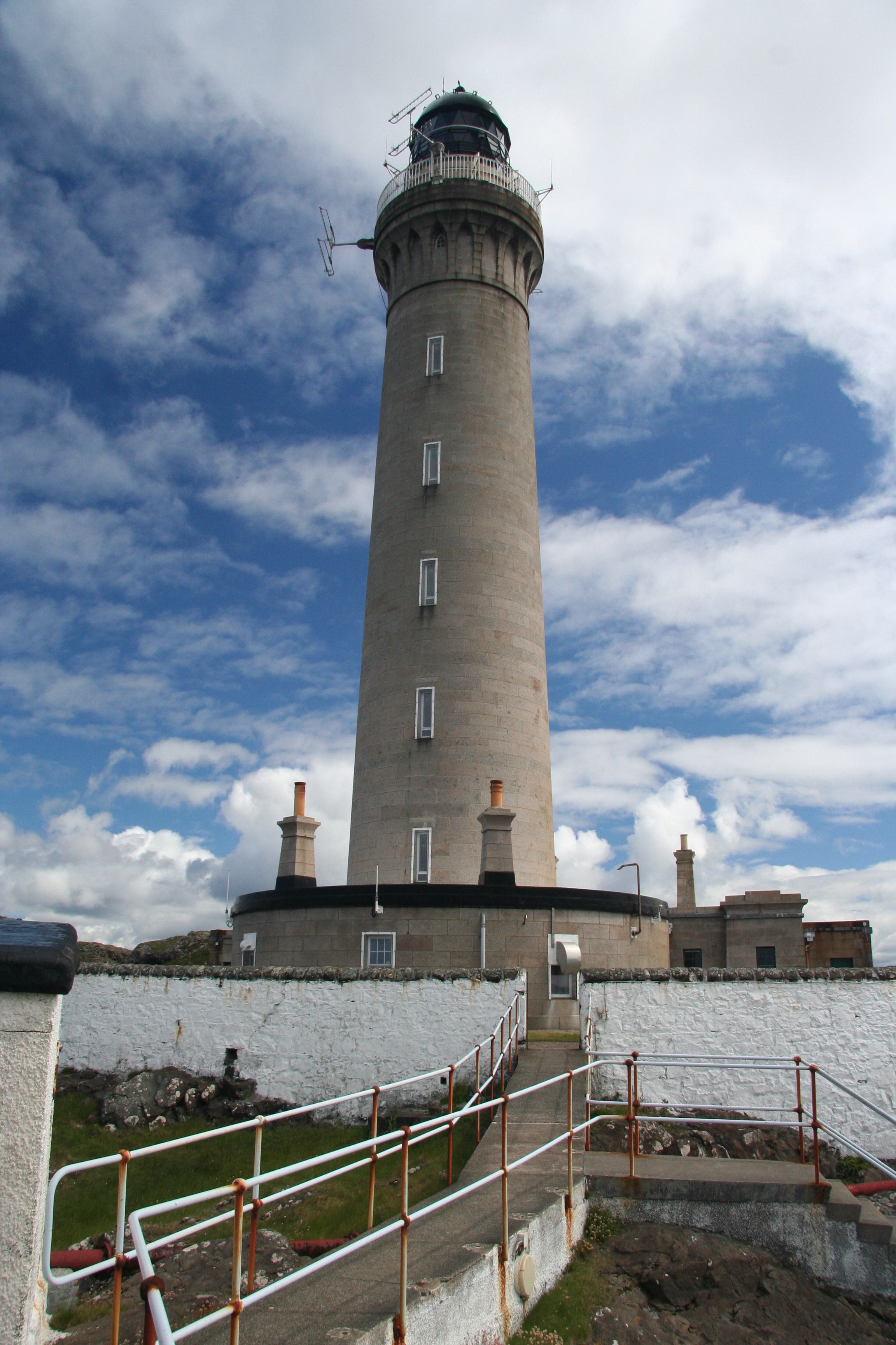 Ardnamurchan Point Lighthouse built in an egyptian style by Robert Louis Stephensons father.